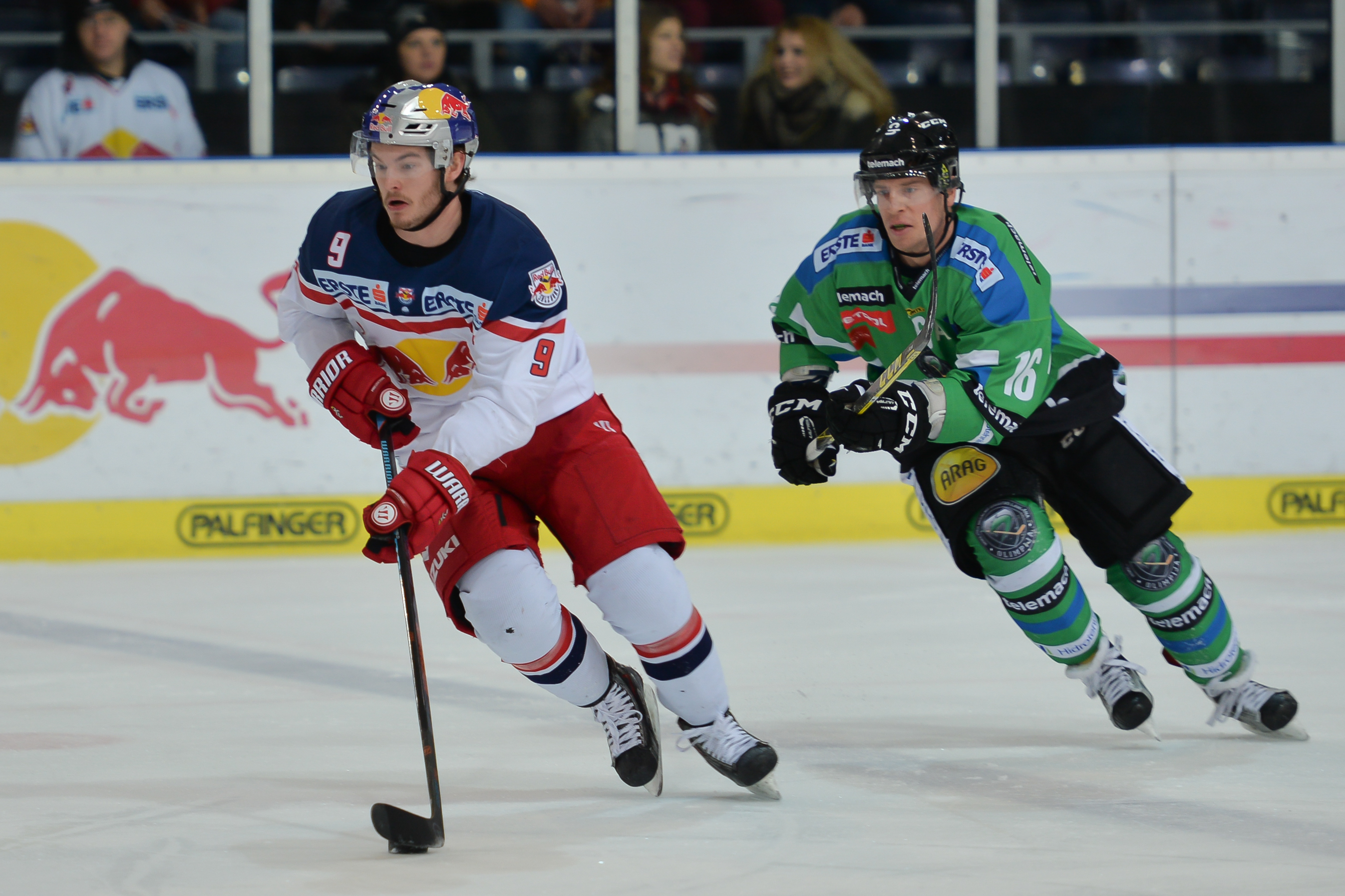 EBEL Red Bull Salzburg vs Olimpija Ljubljana 2016-01-17